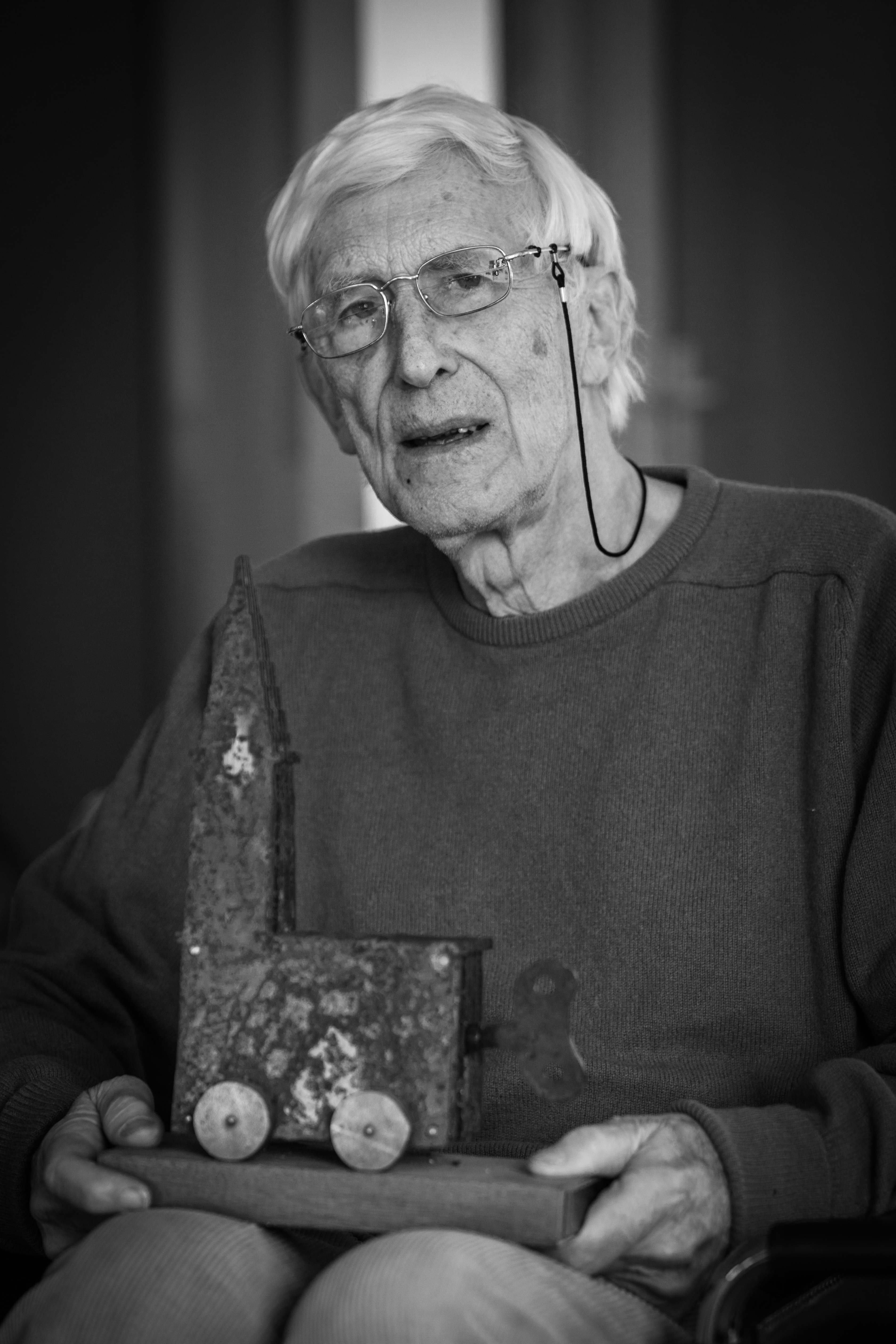 Jean-Thomas "Tomi" Ungerer (born 28 November 1931)[1] is a French illustrator and a writer in three languages. He has published over 140 books ranging from much loved children's books to controversial adult work and from the fantastic to the autobiographical.